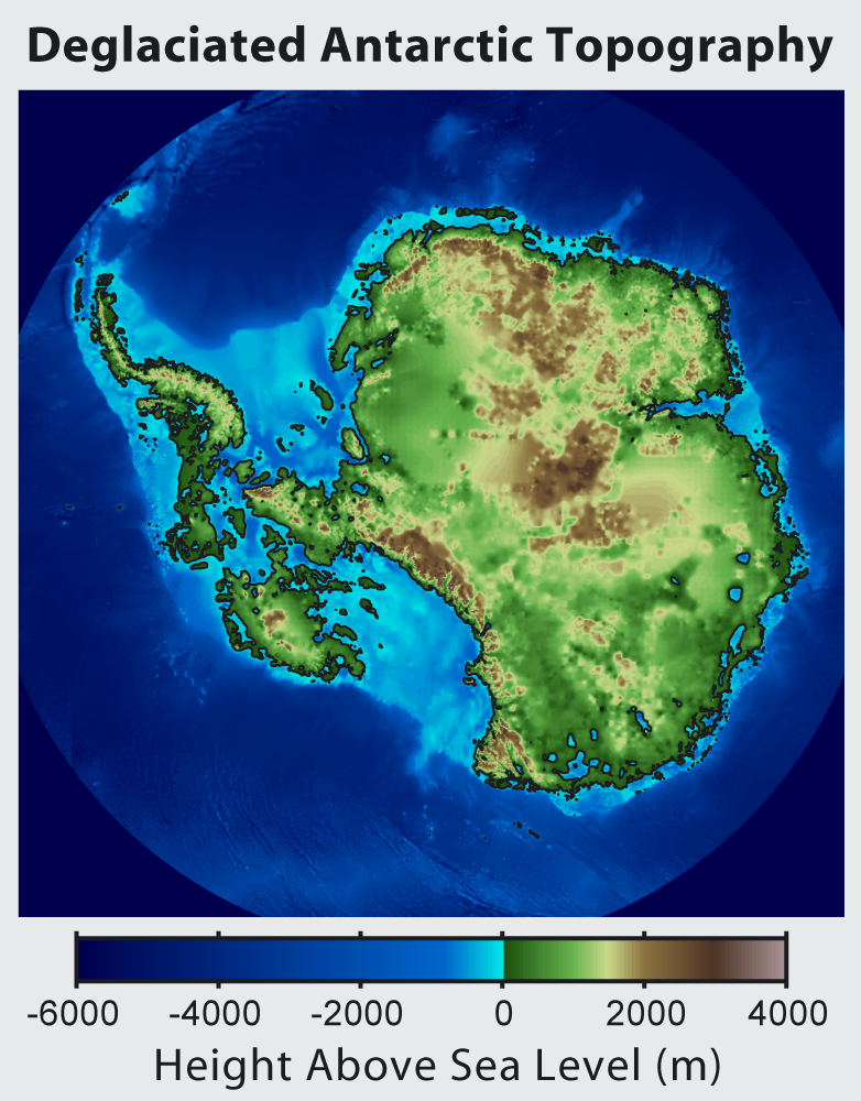 This is topographic map of Antarctica after removing the ice sheet and accounting for both isostatic rebound and sea level rise. Hence this map suggests what Antarctica may have looked like 35 million years ago, when the Earth was warm enough to prevent the formation of large-scale ice sheets in Antarctica. Isostatic rebound is the result of the weight of the ice sheet depressing the land under it. After the ice is removed, the land will rise over a period of thousands of years by an amount approximately 1/3 as high as the ice sheet that was removed (because rock is 3 times as dense as ice). Approximately half the uplift occurs during the first two thousand years. If the ice sheet is removed over more than a few thousand years, then it is possible that a majority of the uplift will occur before the ice sheet fully disappears. As indicated in the map, Antarctica consists of a large continental region (East Antarctica) and group of seas and smaller land regions (West Antarctica). Since the West Antarctic ice sheet is partially anchored below sea level, this region is less stable and more likely to be affected by global warming. Even so, it is likely that during the next century increased precipitation over Antarctica will offset melting. Even in the event of severe sustained warming, it would take many thousands of years for Eastern Antarctica to be fully deglaciated.